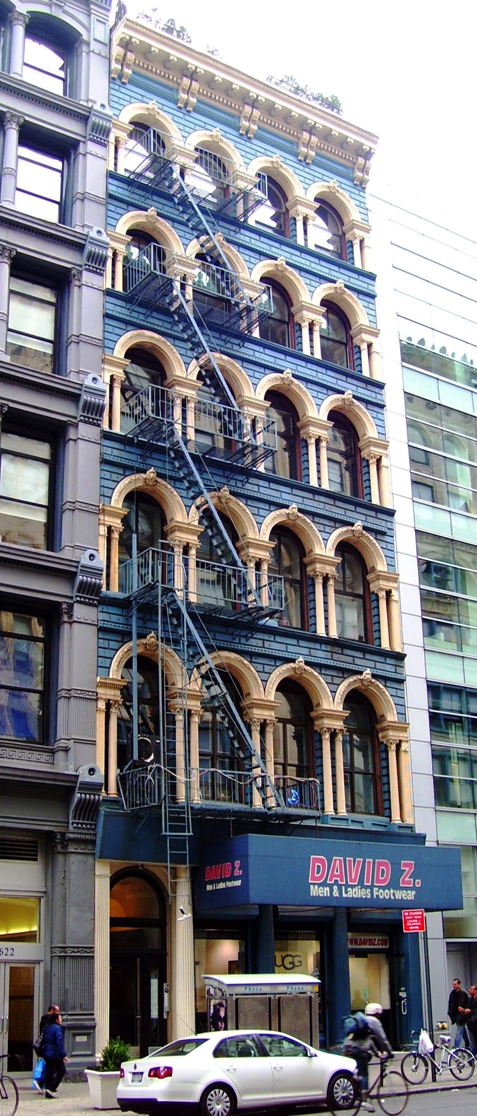 The building at 620 Broadway between Bleecker and Houston Streets in the NoHo section of Manhattan, New York City was designed by John B. Snook, with cast-iron facade by Daniel D. Badger. It was built in 1858 for real-estate investor Henry Dolan. The building came to be called the "Litle Carry Building" because of its similarity to a building at 105 Chambers Street built for William H. Cary, for which Badger also did the facade. {Sources: AIA Guide to NYC (4th ed.) and NYT article)